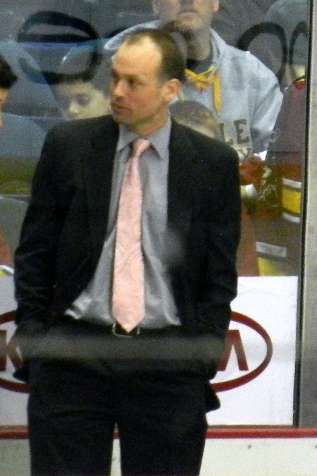 Jeff Blashill coaching the American Hockey League's Grand Rapids Griffins